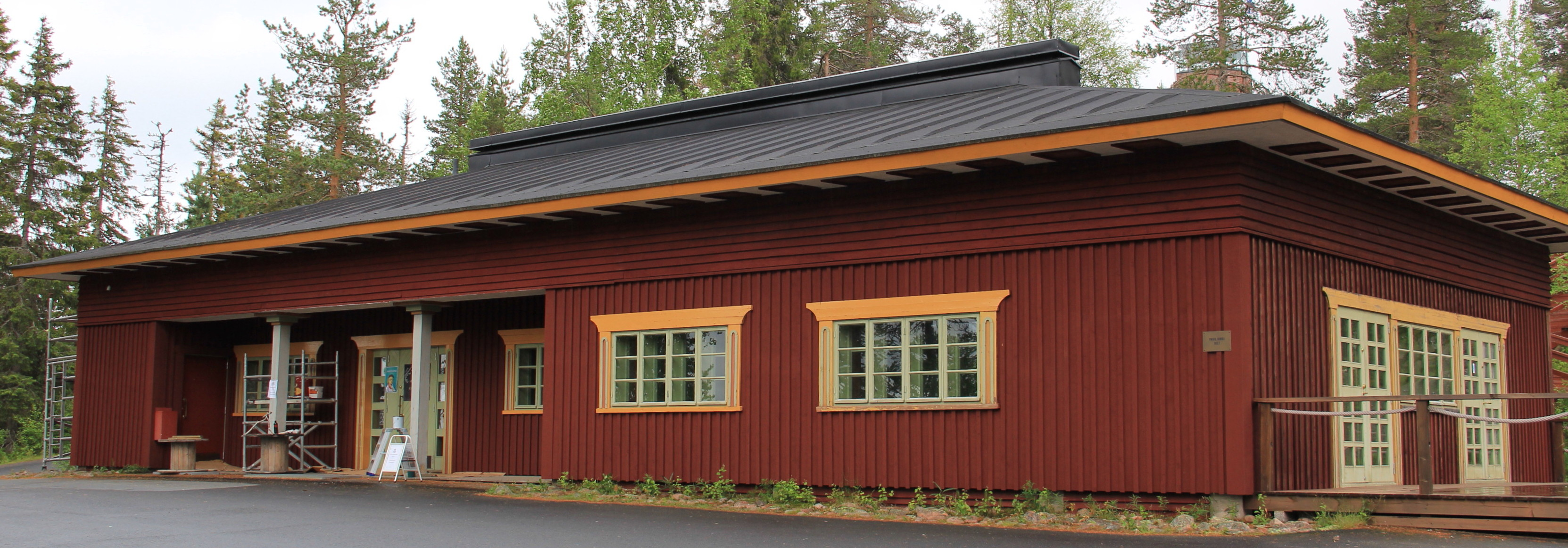 Aavasaksa pavilion, Aavasaksa, Ylitornio, Finland. - Pavilion was completed in 1927 and was designed very likely by architect Waldemar Wilenius. - Seen from north. Ongoining paintwork.